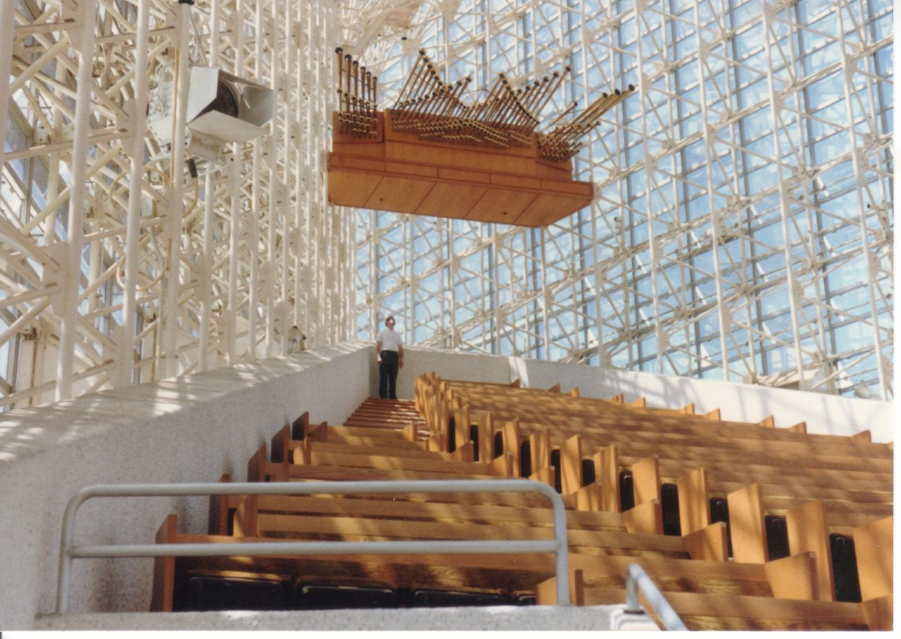 Another view of the interior of the Crystal Catherdal.